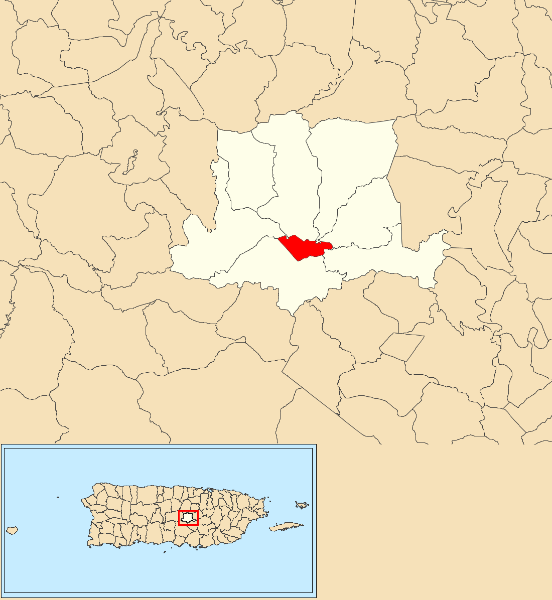 Barranquitas barrio-pueblo, Barranquitas, Puerto Rico locator map